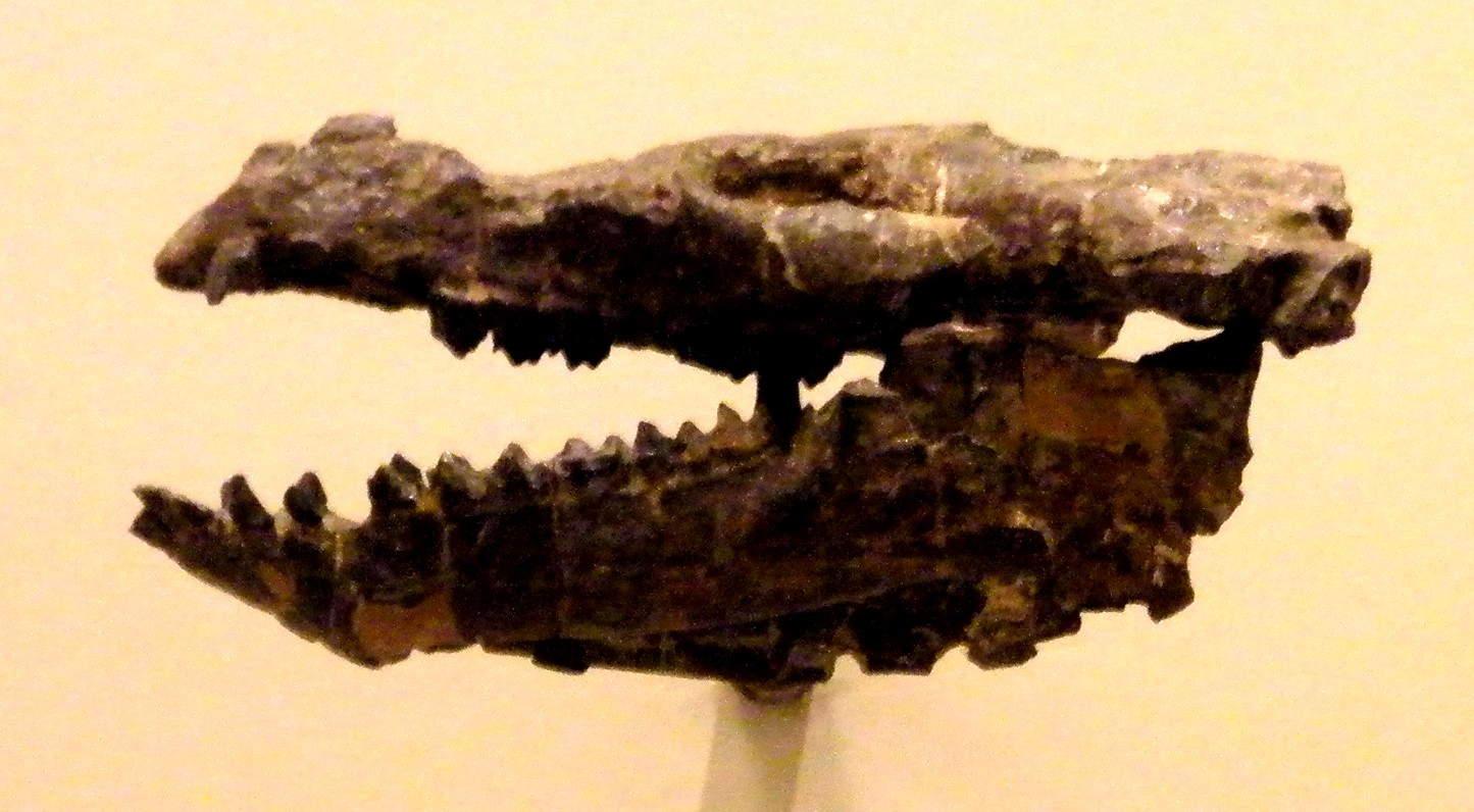 Skull of Homogalax tapirinus, an extinct tapir reletive, in the "American Museum of Natural History", New York